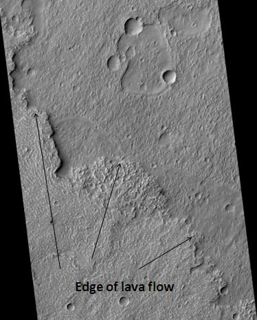 Pickering Crater lobate flow, as seen by hirise. Location is 33.1 degrees south latitude and 227.5 degrees east longitude. Image was taken by the Mars Reconnaissance Orbiter's HiRISE. The HiRISE camera was built by Ball Aerospace and Technology Corporation and is operated by the University of Arizona. Image courtesy NASA/JPL/University of Arizona.